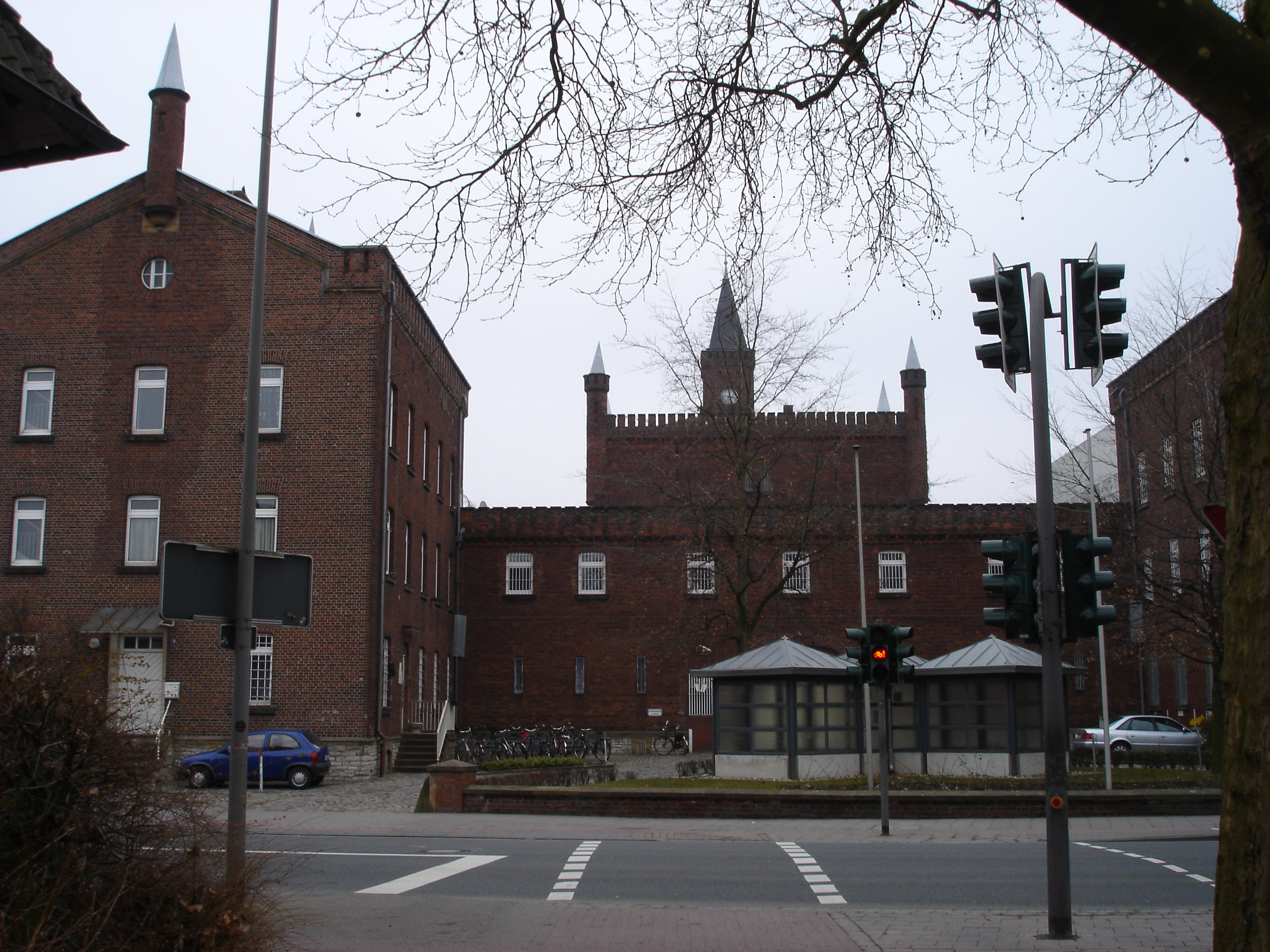 The jail in Münster, Westphalia, Germany